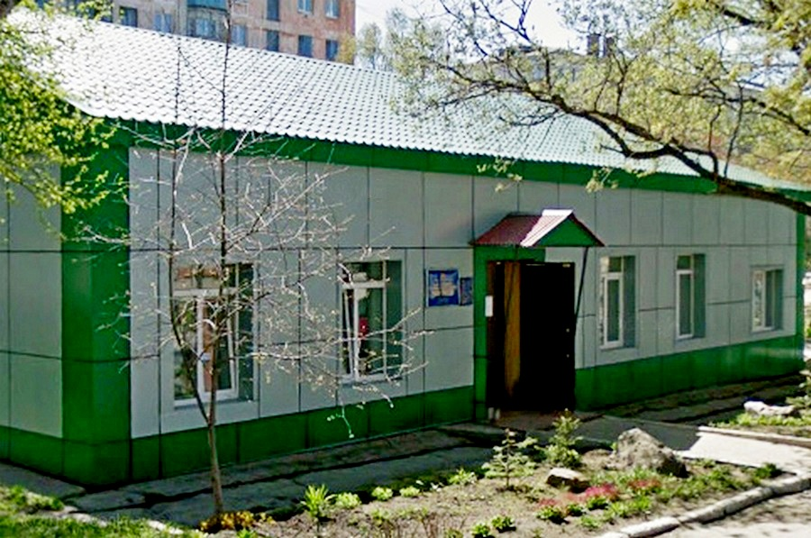 Museum of Korsakov (Sakhalin region)